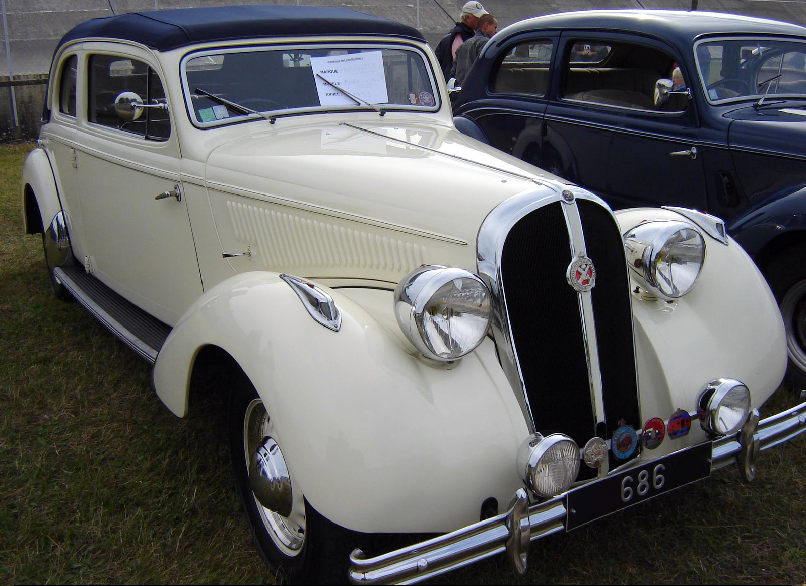 1939 Hotchkiss 686 PN Monte-Carlo (#81828) at Montlhéry